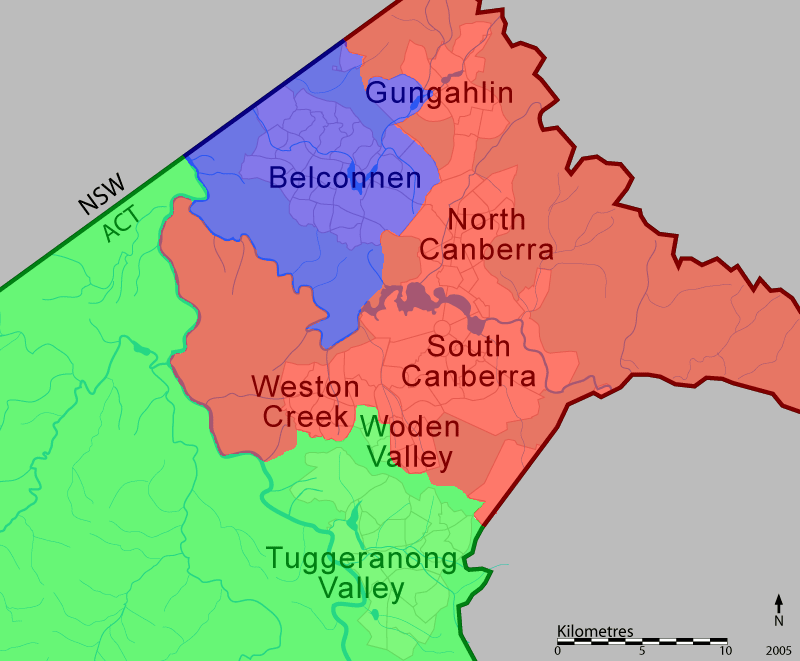 ACT electorates, as depicted at [1] Brindabella Molonglo Ginninderra